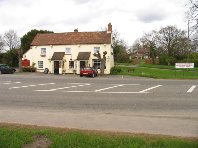 Bath Road: Midgham. The pub (The Coach and Horses) is at the junction of the road to Midgham and Brimpton, on the A4. The road to Midgham is just visible in the picture.